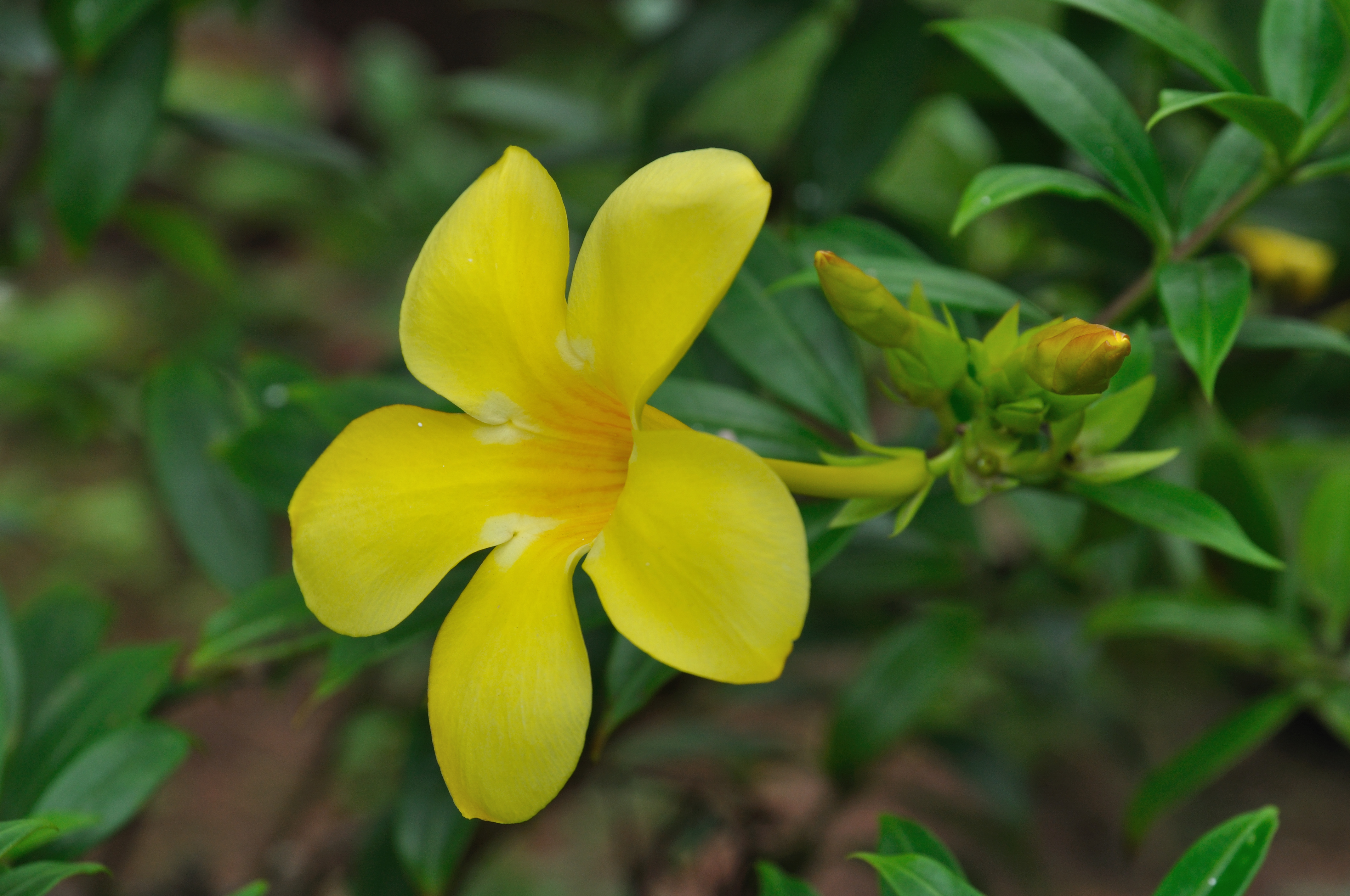 The garden flower, Allamanda Cathartica also known as Yellow Bell, Golden Trumpet, Buttercup Flower or Har-kakra in Bengali. This photograph has been taken in mid-monsoon at Kolkata.